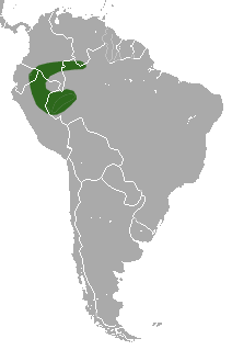 Marmosops neblina range